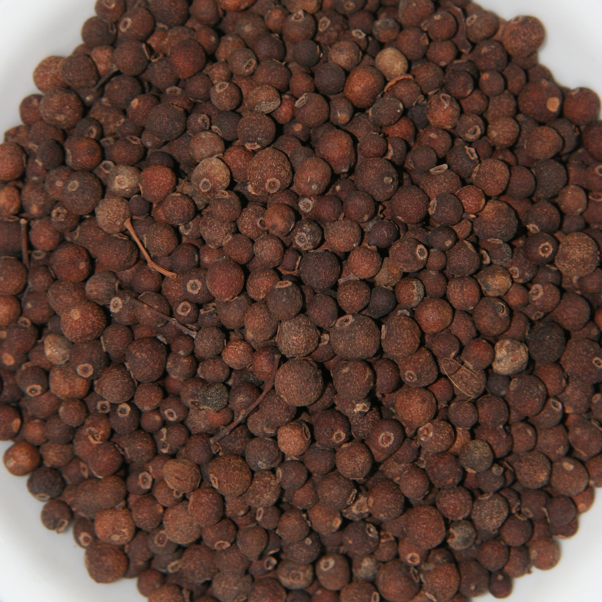 Whole allspice berries in a bowl